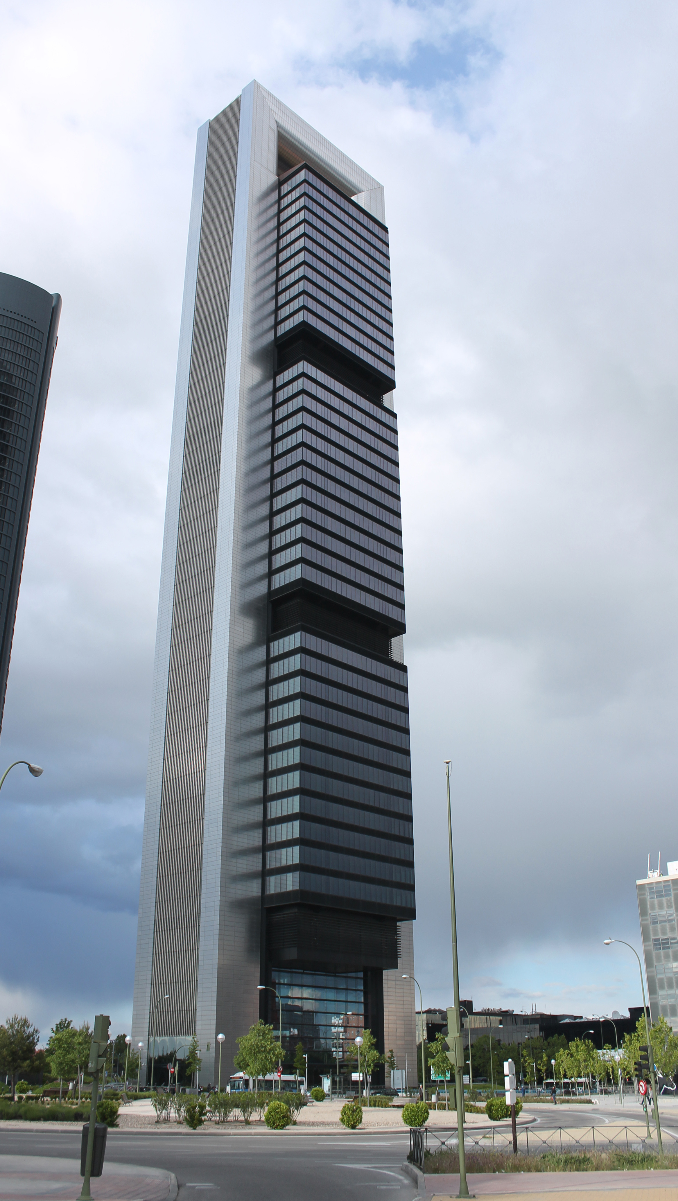 Façade of Torre Caja Madrid in Madrid (Spain).